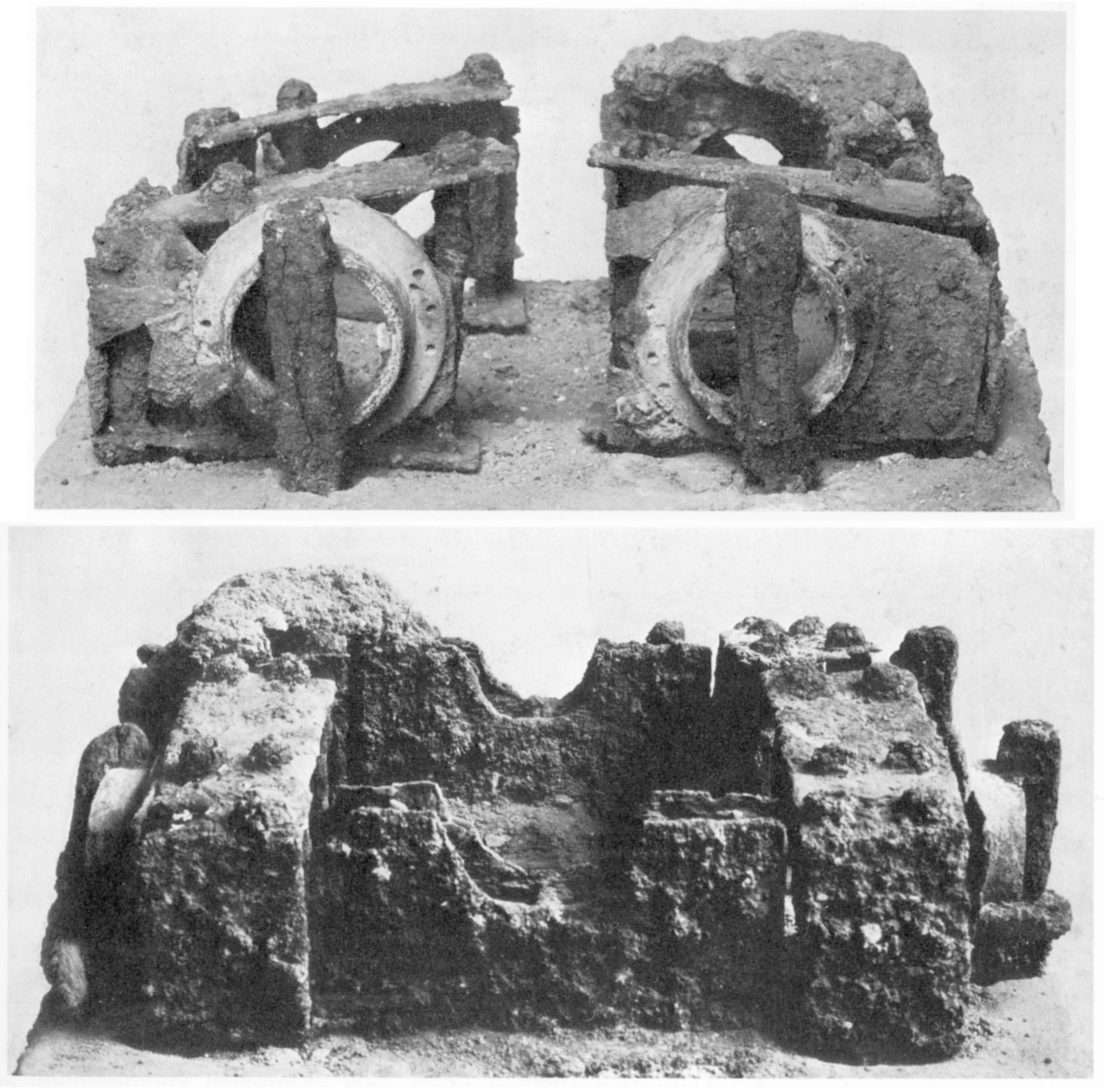 The so called Ampurias-Geschütz, metal-parts of an ancient ballista, found 1911 in the Neapolis of Empúries, Catalunya, Spain. Modern Reconstruction: File:Ancient Mechanical Artillery. Pic 02.jpg